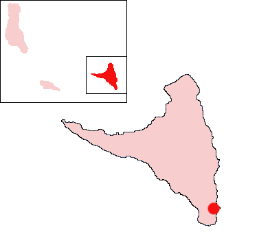 Mramani, Anjouan, Comoros Location Map; created with the GIMP. Made by User:Acntx.